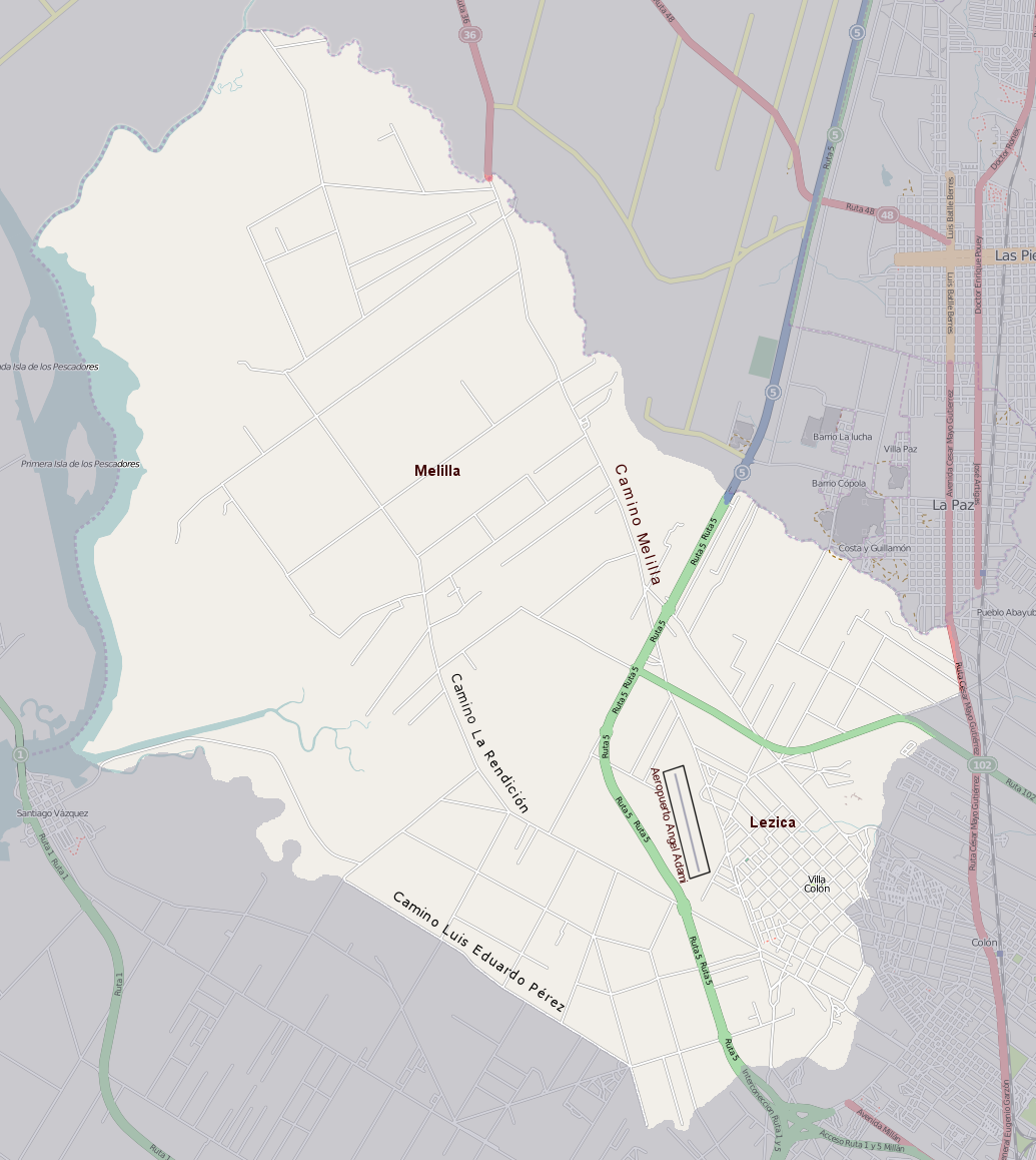 Street map of Lezica - Mellila, Montevideo, exported from OpenStreetMap. I added shading to delimit the barrio. This map may be incomplete, and may contain errors. Don't rely solely on it for navigation.